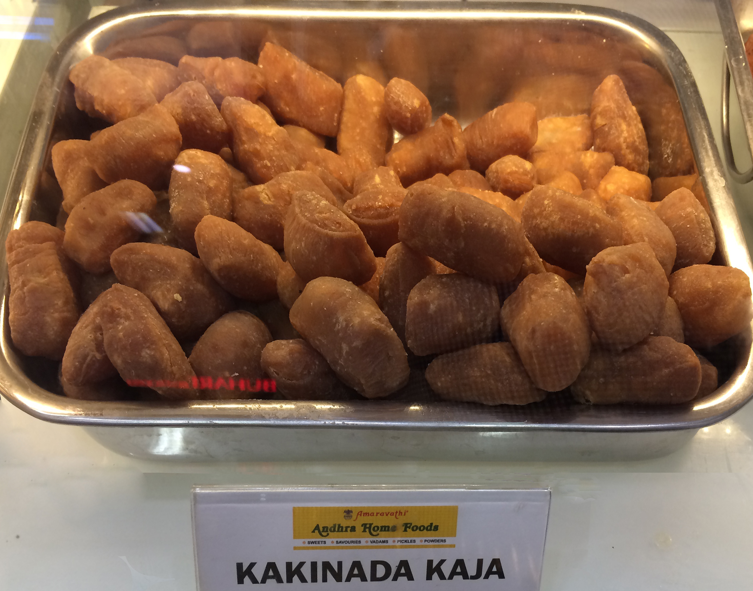 Kakinada Kaja is a sweet from Kakinada, Andhra Pradesh, India made with refined wheat flour, sugar and edible oil or ghee